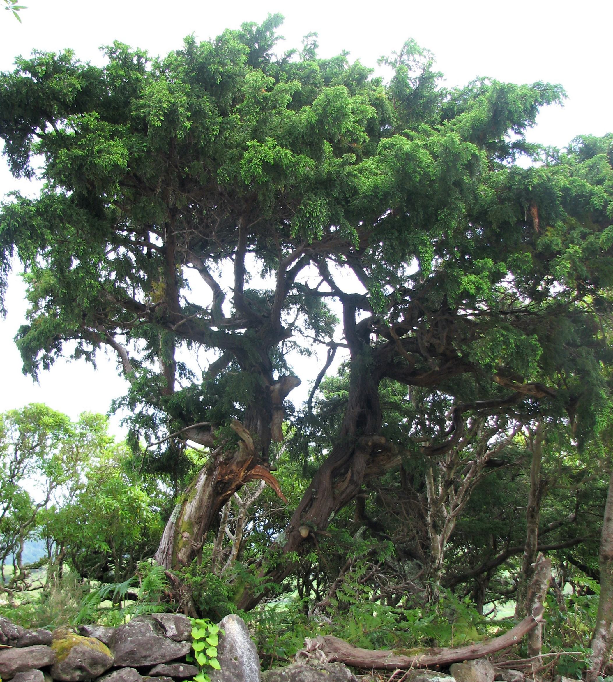 Juniperus brevifolia an Azorean endemic tree species. This specimen is in Matosa, Flores island.